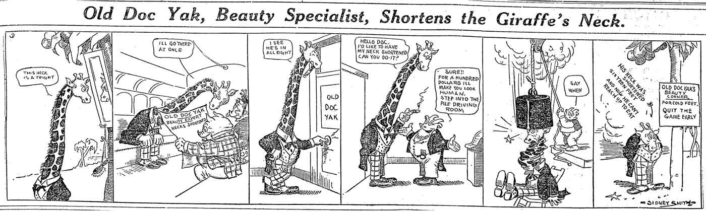 Old Doc Yak, 1912 comic strip: "Old Doc Yak, Beauty Specialist, Shortens the Giraffe's Neck"